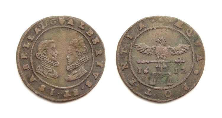 Jeton with portraits of Albert VII, Archduke of Austria and Infanta Isabella of Spain, struck in Antwerp 1612. Obverse: Portraits of Albert and Isabella. Reverse: Eagle holding balance, date 1612.